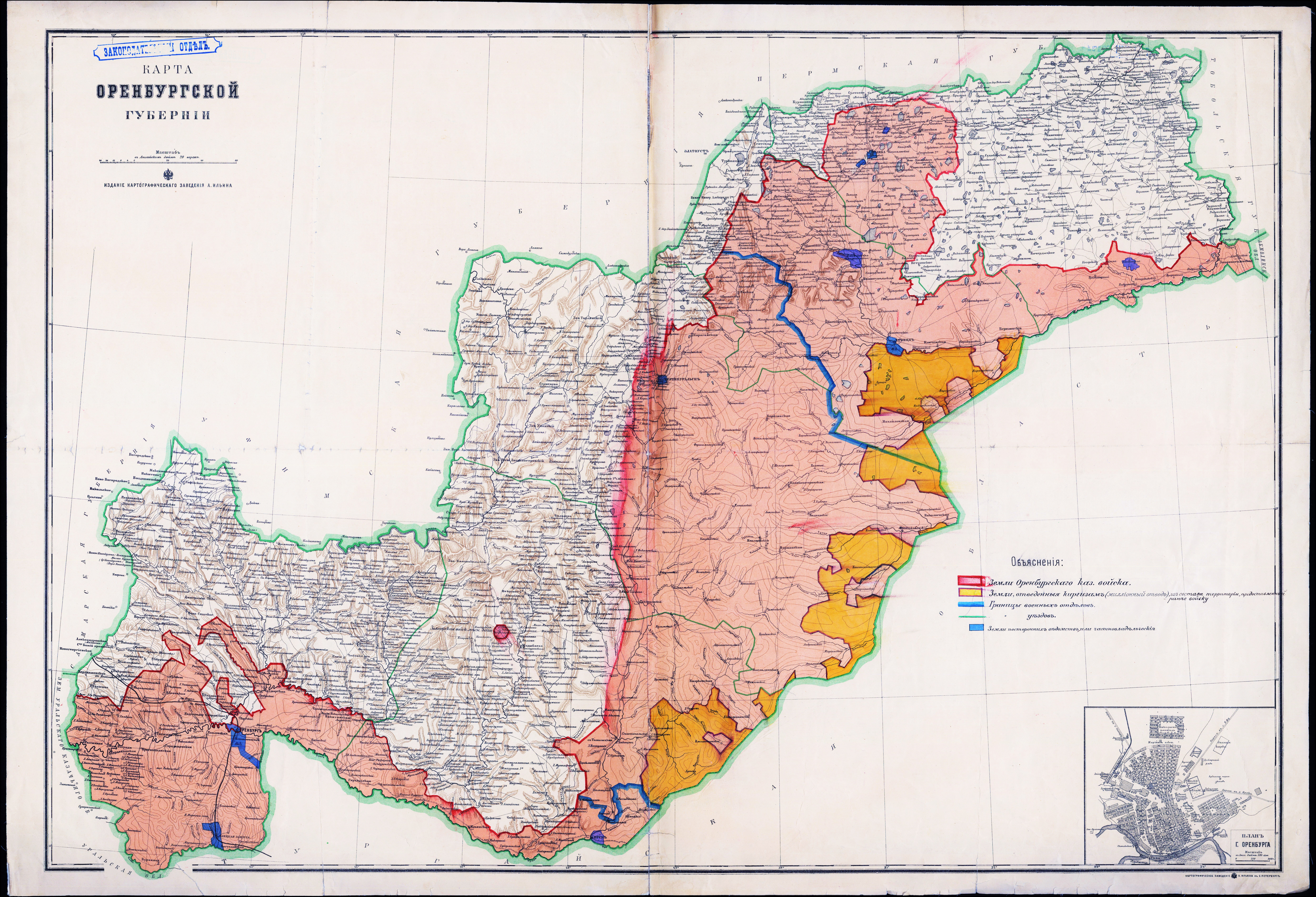 Orenburg Governorate map, issue 1905